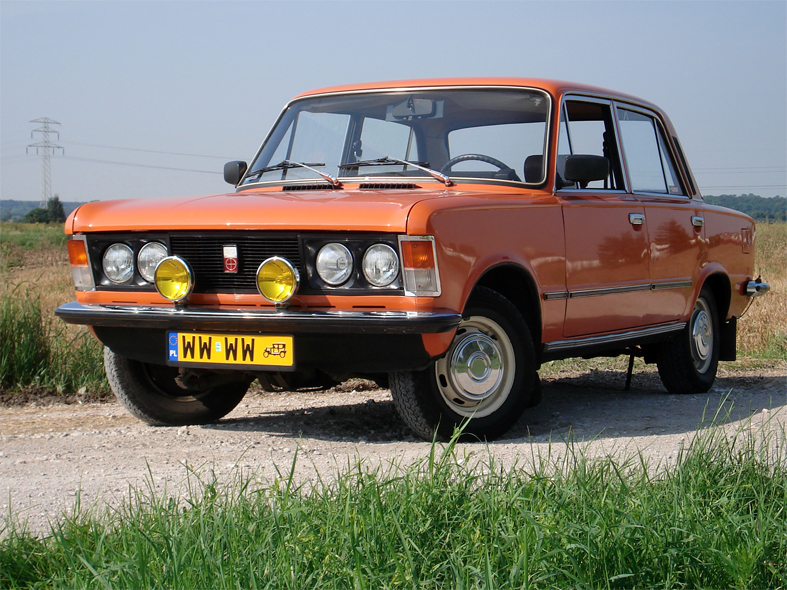 Polski FIAT 125p_1500, model of 1980 year was build by FSO (Passenger Car Factory) in Warsaw